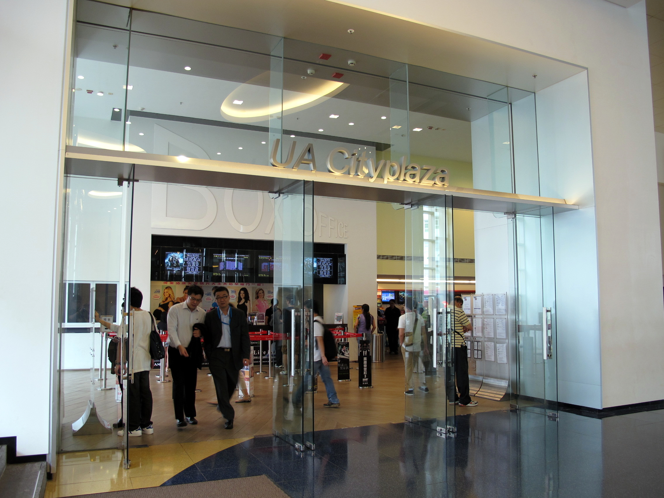 HK Cityplaza UA Cinema